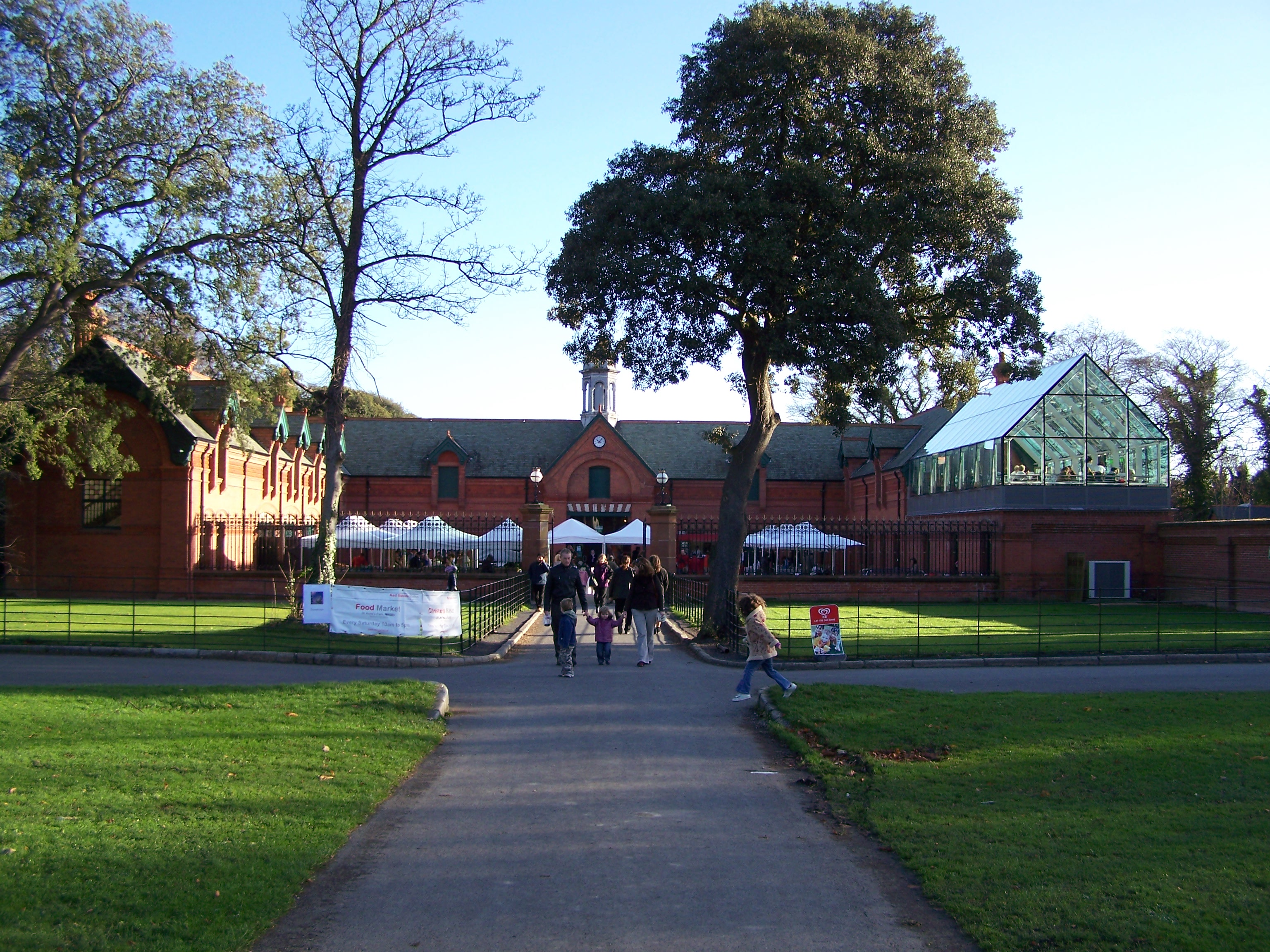 Rory Deegan